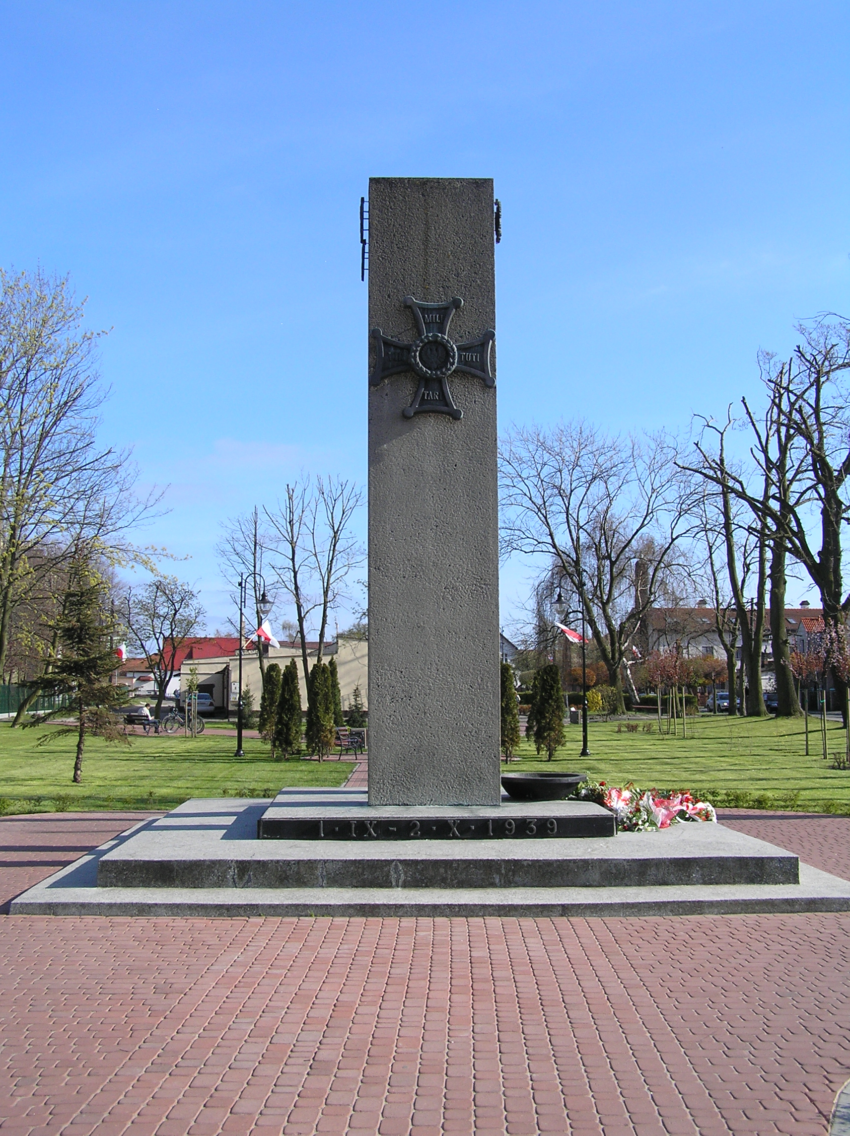 Monument to Defenders of Hel